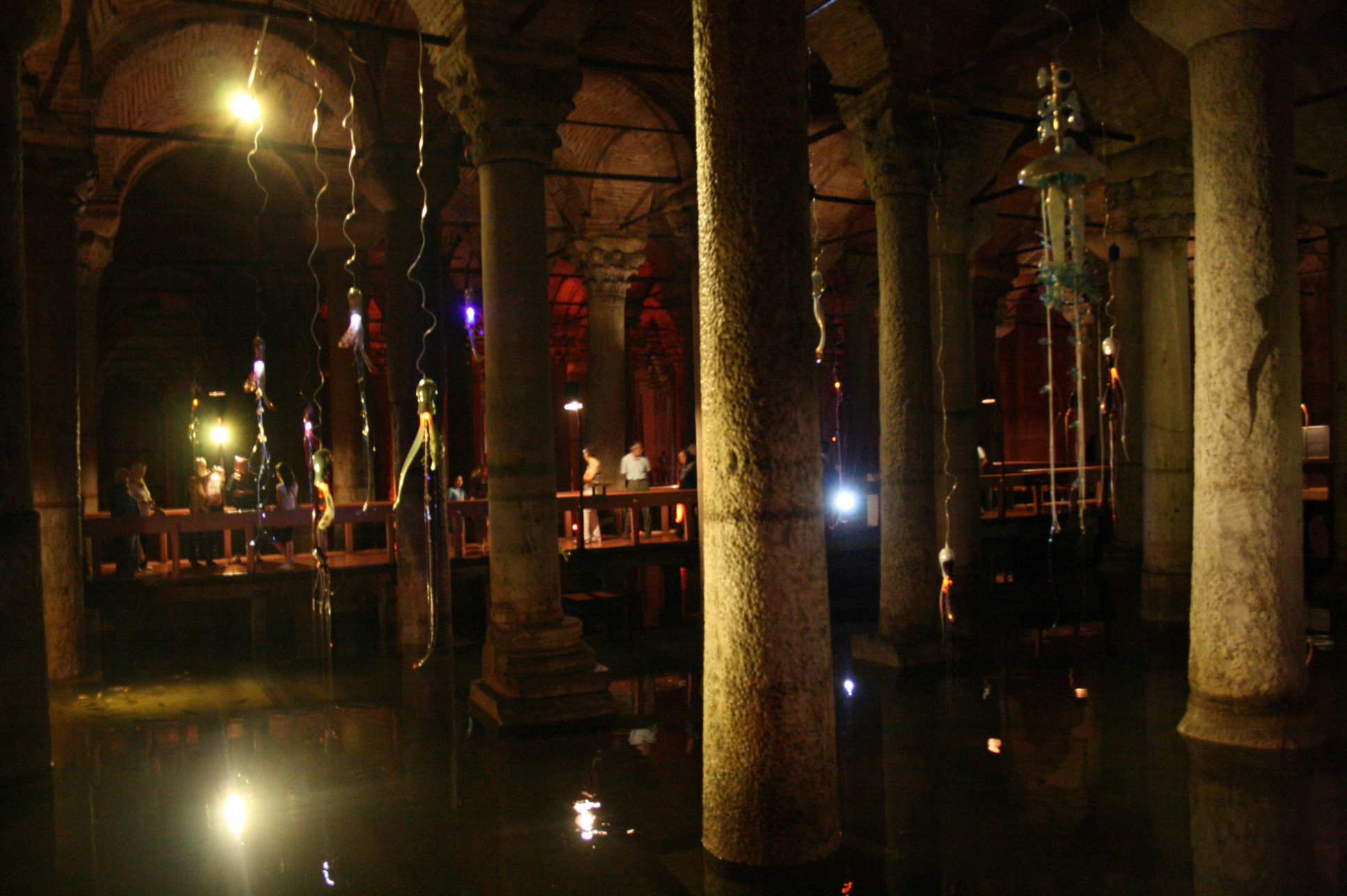 2010 Art Exhibit in the Basilica cisterns, Istanbul.